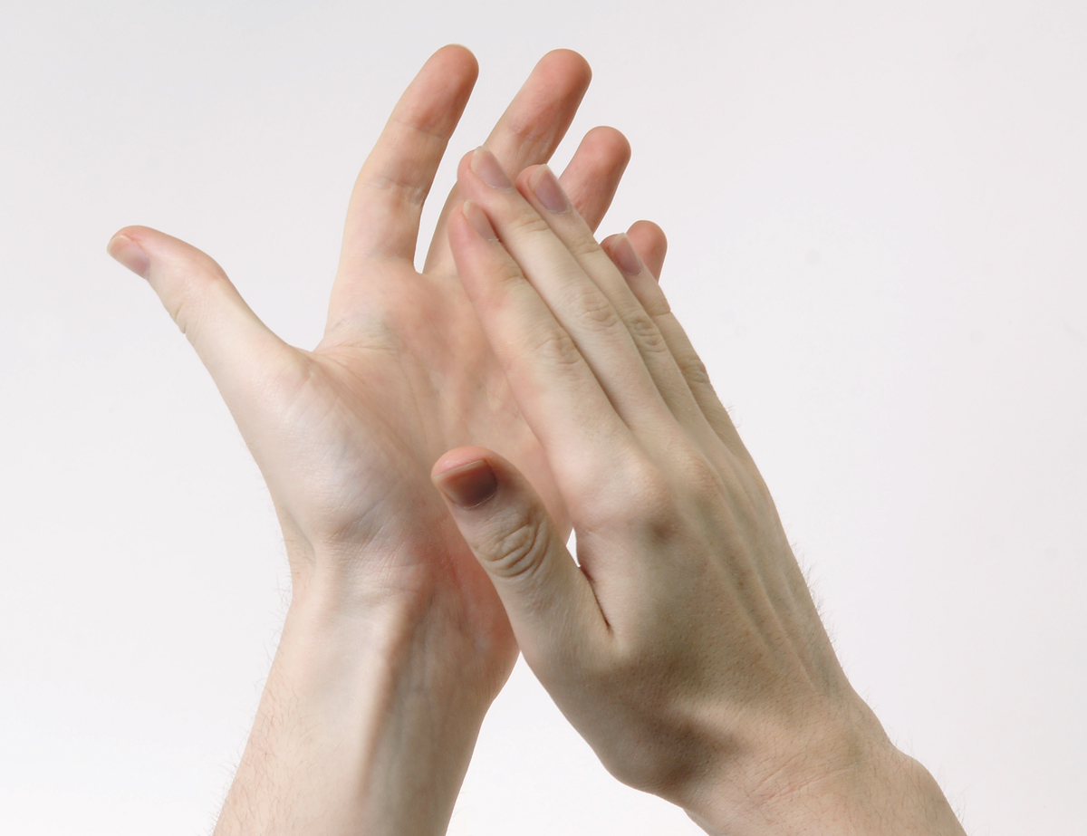 A pair of hands clapping